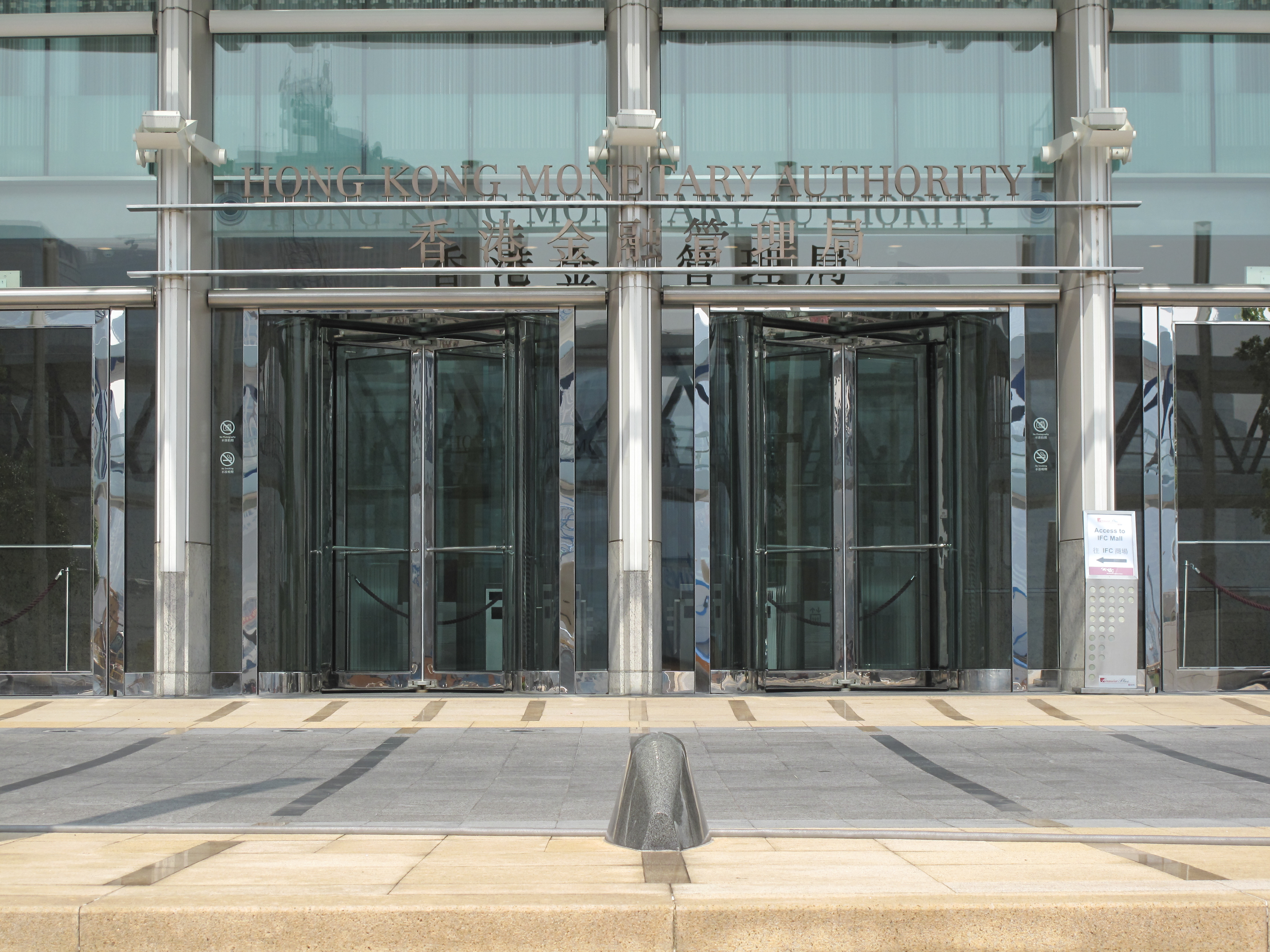 Photo of Hong Kong Monetary Authority